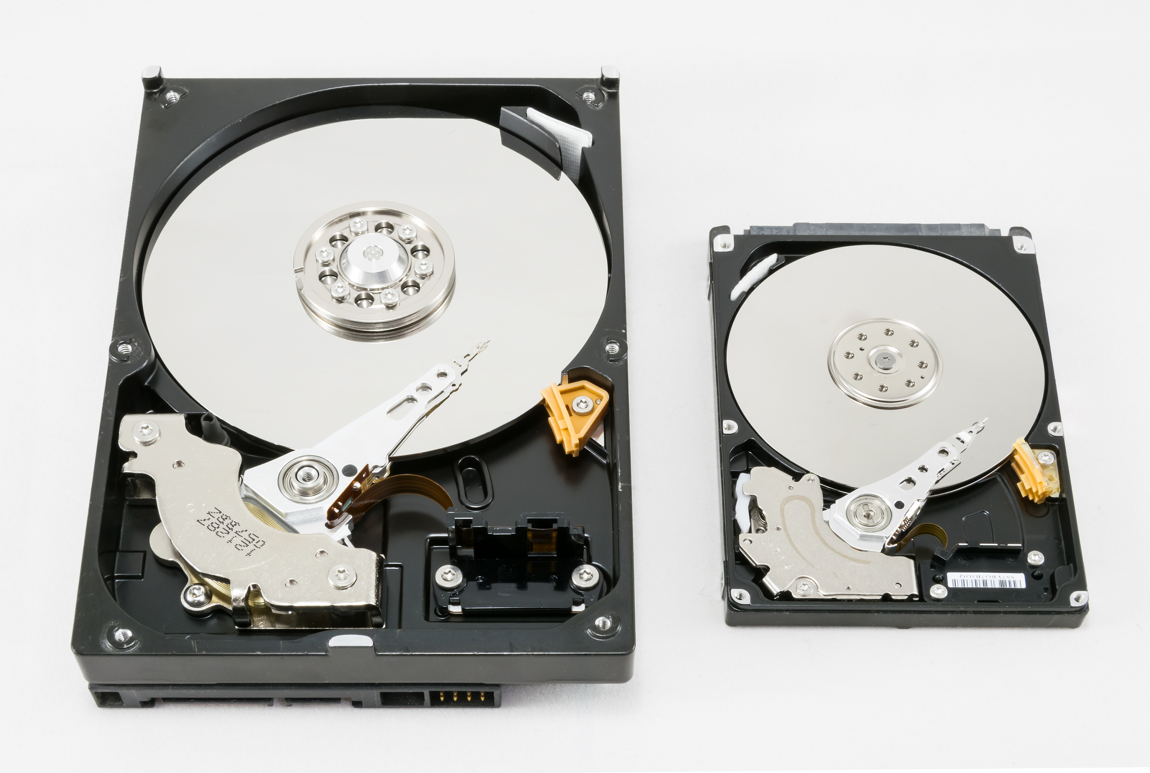 Disassembled hard disks 3,5" i 2,5"